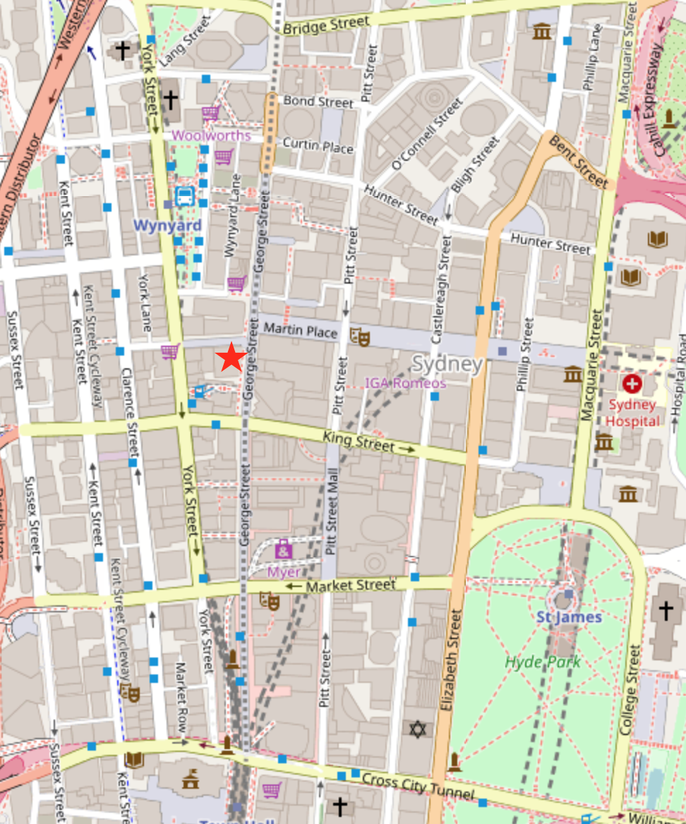 This map may be incomplete, and may contain errors. Don't rely solely on it for navigation.